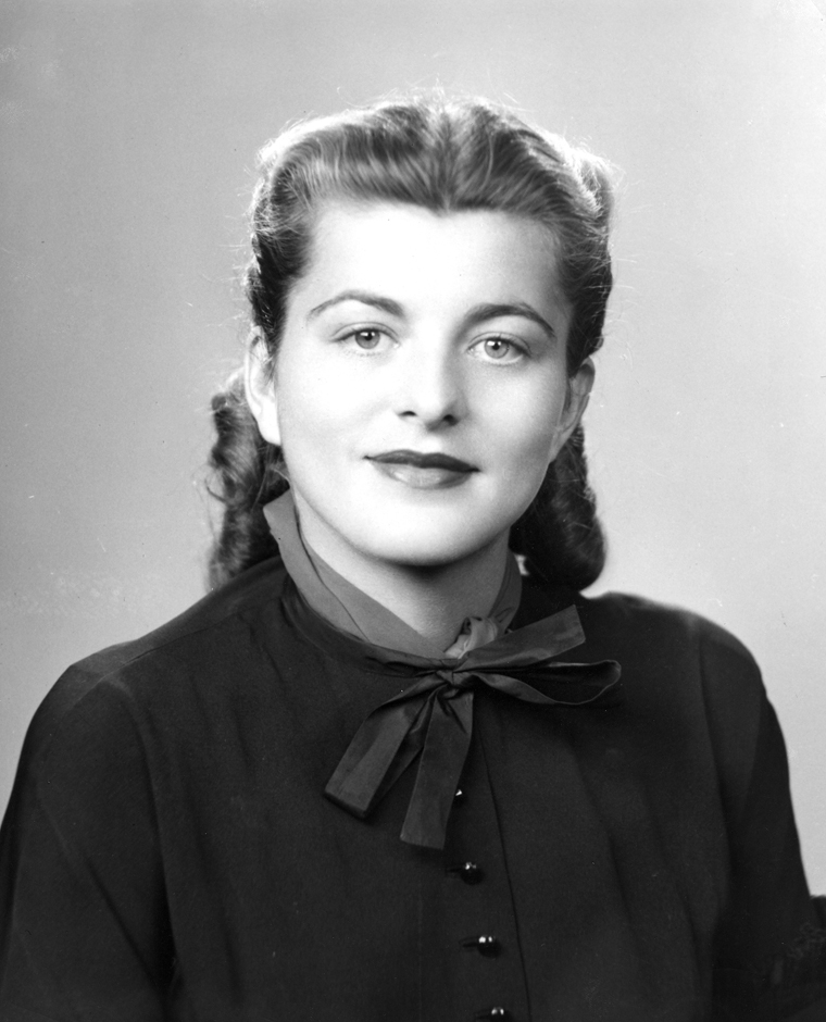 Patricia Kennedy Lawford photographed c. 1948.